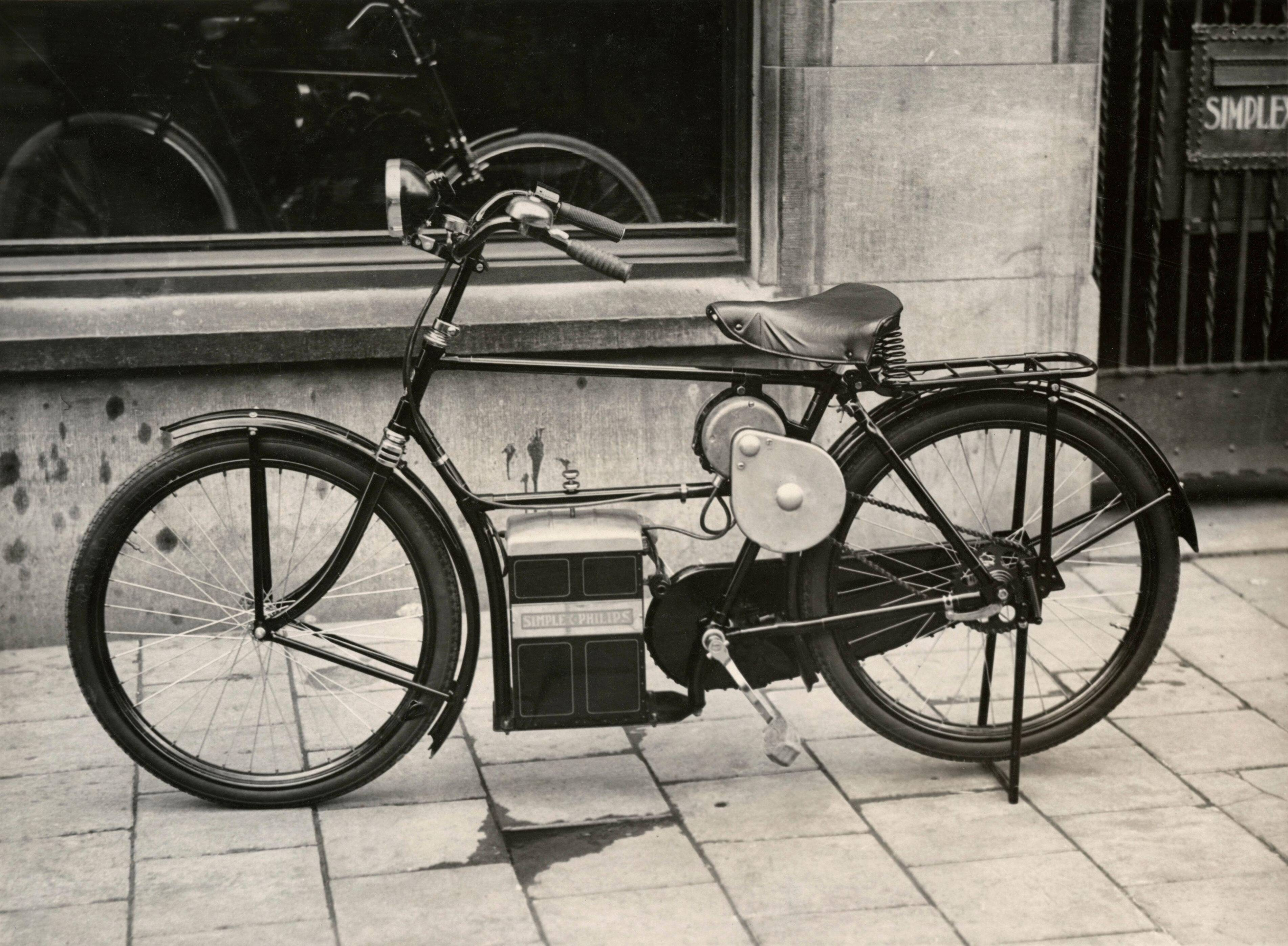 New e-bike, made by Dutch industrial cooperation (Philips patents, Simplex bike-industry). Made at the Simplex Factory, Overtoom, Amsterdam. 3 June 1932